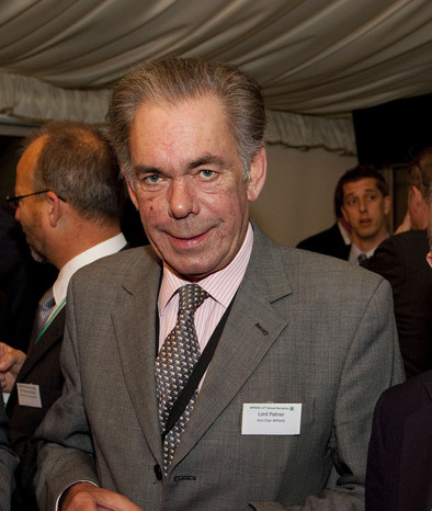 Adrian Palmer, 4th Baron Palmer at the All-Party Parliamentary Gardening & Horticulture Group meeting - November 2011